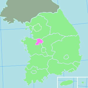 Outline map of South Korea showing location of Cheonan-si.